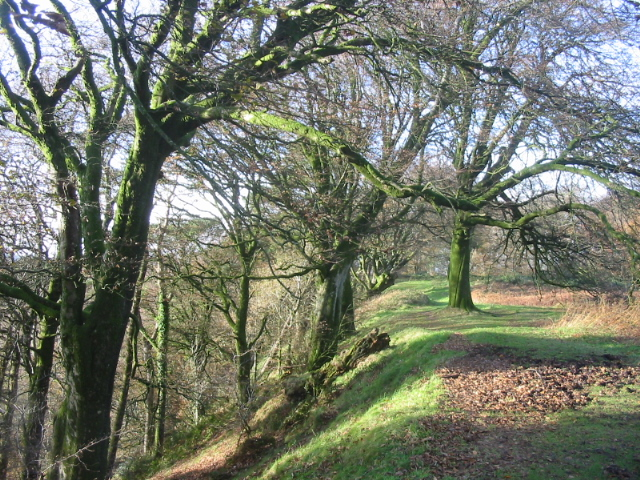 on Lewesdon Hill.